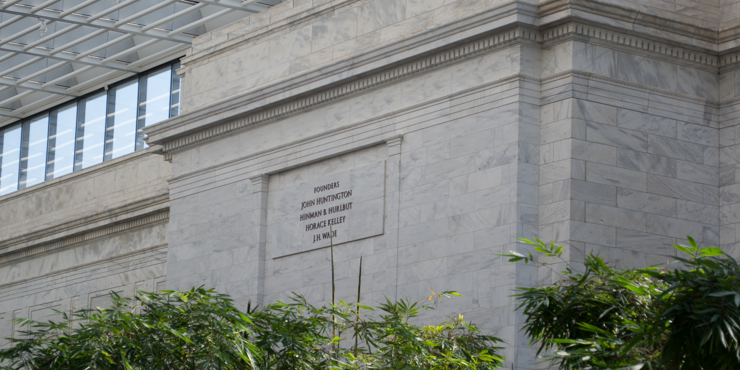 Inscription about the founders of the museum, in the Ames Atrium at the Cleveland Museum of Art. The original Beaux-Arts was designed by the architectural firm of Hubbell & Benes, and opened in June 1916. A Neoclassical addition, designed by the firm of Hayes and Ruth, opened in March 1958 against the original building's north side. The building extended toward the north again in 1971 with a Modernist addition designed by Marcel Breuer. A west wing, designed by the firm of Dalton, van Dijk, Johnson & Partners, opened in 1983. In 2001, the museum was radically changed by architect Rafael Viñoly. The 1958 structure, which had never really worked well, was demolished. The courtyard this demolition created was covered with a glass-roofed atrium. Gallery and museum store space was added to the "interior" wall of the Breuer wing, an east wing was constructed, and a "wrap-around" connecting the east and west wings and enfolding the north wing helped link it all together. The east wing opened in 2009, and the north wing and atrium in 2012. The west wing opened on January 2, 2014. The atrium was named for Cleveland businessman and philanthropist B. Charles "Chuck" Ames and his wife, Joyce "Jay" Eichhorn Ames, who donated $20 million to the museum's reconstruction. Ames began his career with the consulting firm McKinsey & Co., and then was senior operating partner and vice chairman of the investment firm Clayton, Dubilier & Rice. He was also CEO and chairman of Uniroyal Goodrich, CEO of Acme Cleveland Corp., and CEO, president, and chairman of Reliance Electric. The Ames have given away roughly $45 million since 2008.